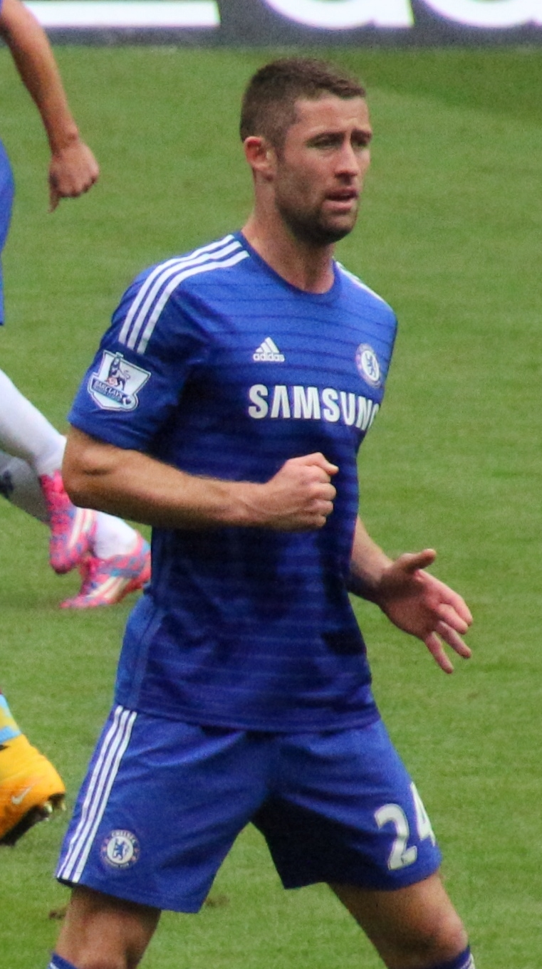 Gary Cahill playing for Chelsea against Aston Villa at Stamford Bridge, Fulham on 27 September 2014